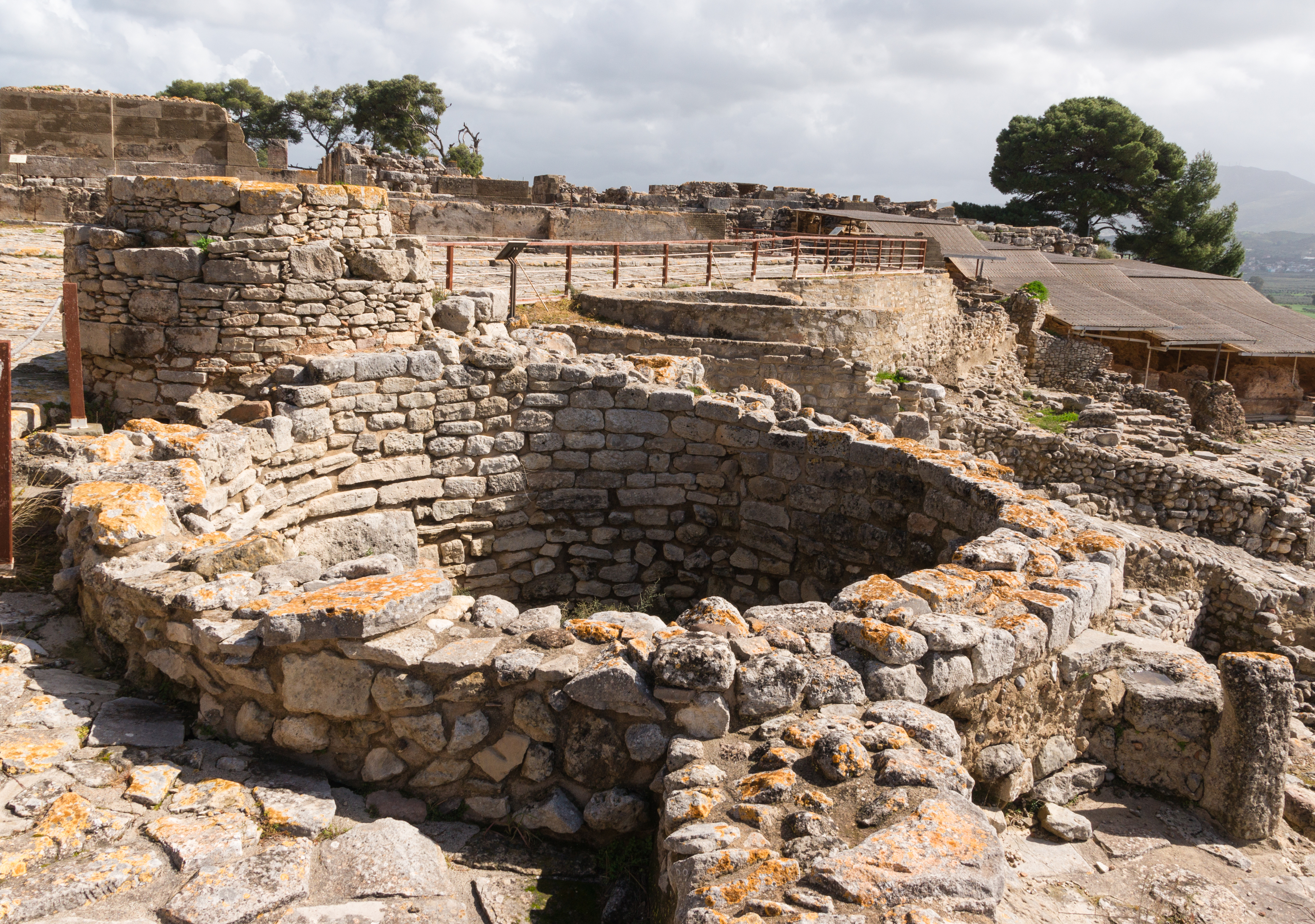 A storage silo in Phaistos, Crete, Greece.